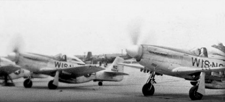 U.S. Air Force North American F-51D Mustang fighters from the Wisconsin Air National Guard, circa 1950.